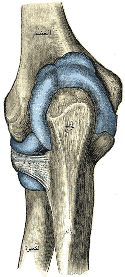 Capsule of elbow-joint (distended). Posterior aspect.